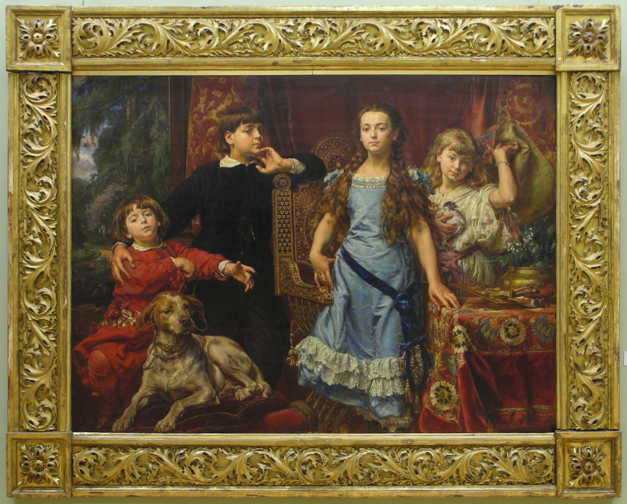 Portrait of the Artist's Children.From left to right: Jerzy (1873-1927), Tadeusz (1865-1911), Helena (Unierzyska, 1867-1932), Beata (Kirchmayer, 1869-1926).